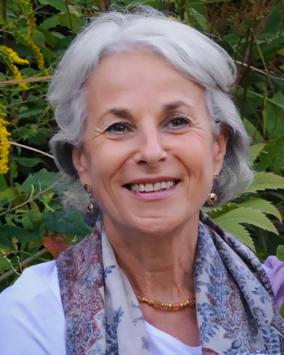 Portrait of Françoise Wilhelmi de Toledo